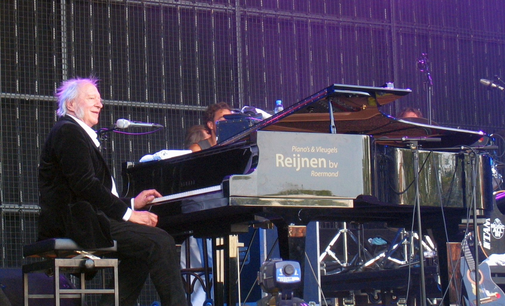 Ramses Shaffy at the ZomerParkFeesten in Venlo